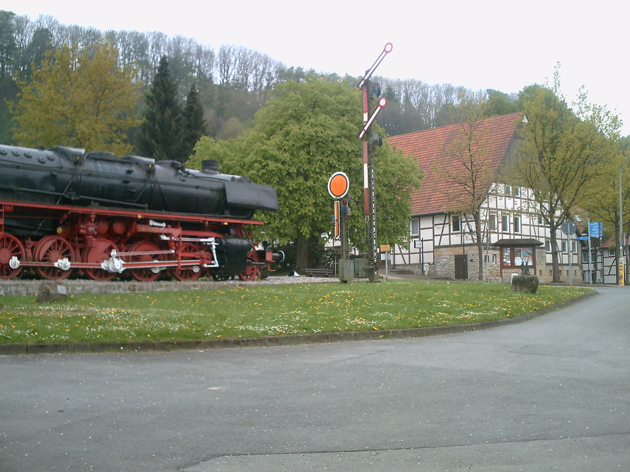 Memorial steam locomotive in Altenbeken, Germany. Right hand site in the background: The Eggemuseum in Altenbeken